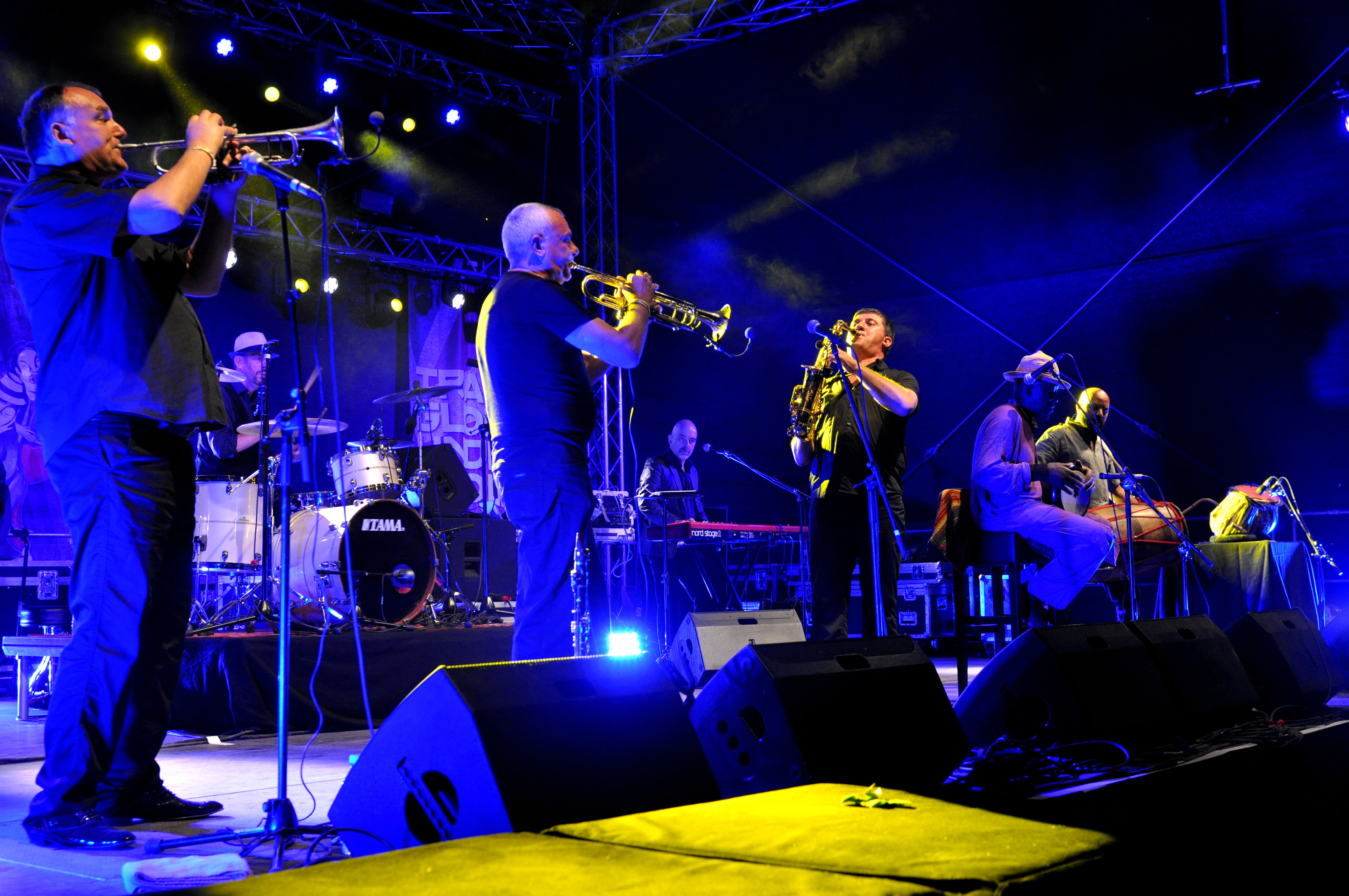 Fanfare Tirana meets Transglobal Underground (ALB/GBR), World Music Festival Horizonte 2015, Ehrenbreitstein Fortress, Koblenz, Rhineland-Palatinate, Germany Festivalsommer This photo was created with the support of donations to Wikimedia Deutschland in the context of the CPB project "Festival Summer".